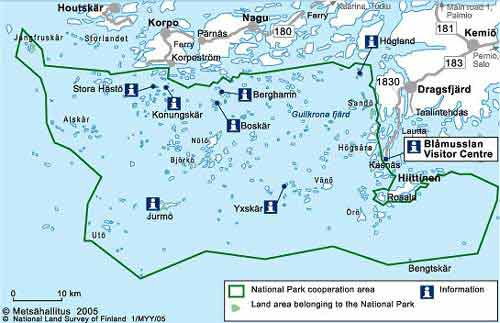 The first marine national park in Europe - PAN Park